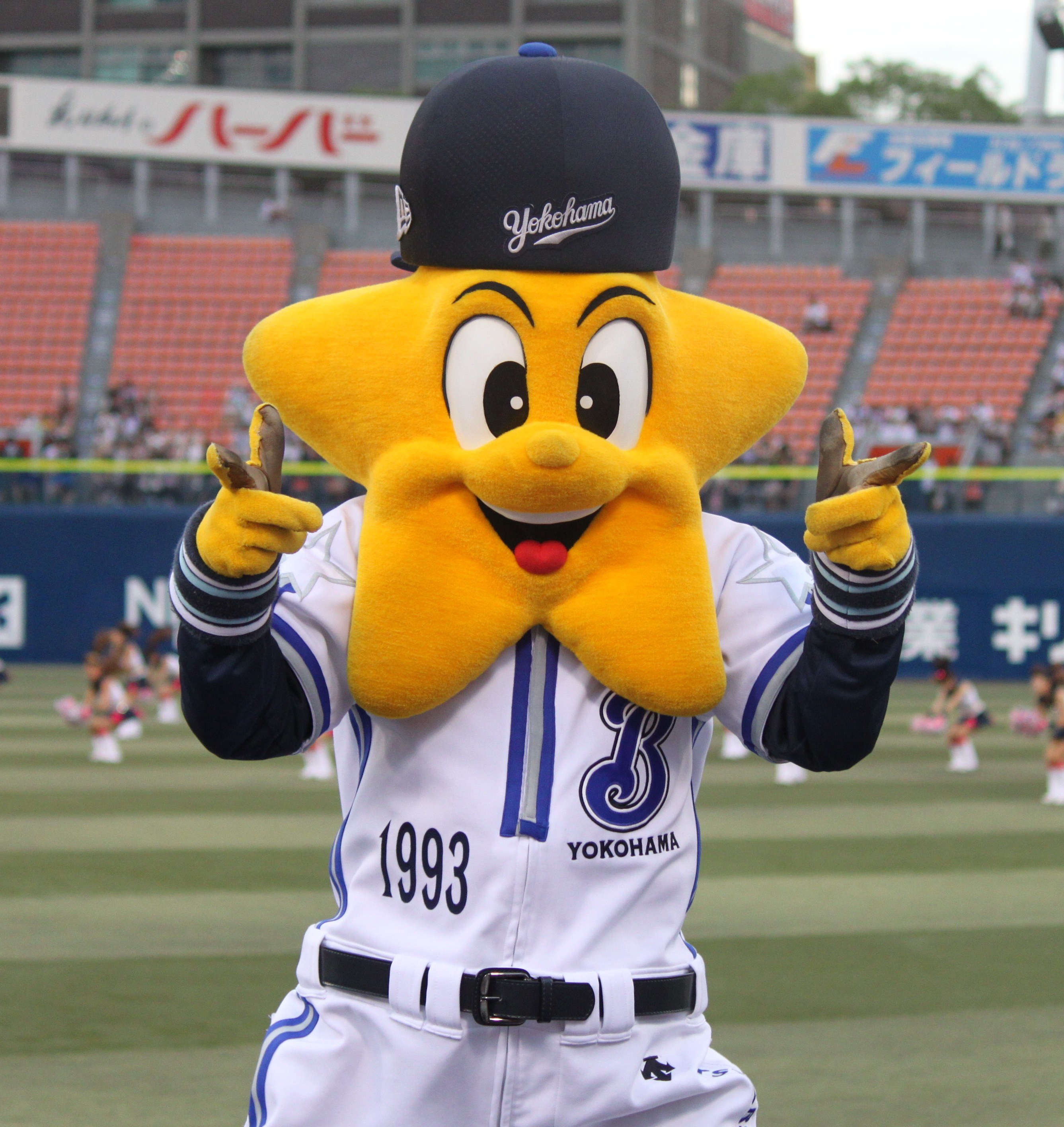 Hosshey, mascot of the Yokohama BayStars, at Yokohama Stadium.